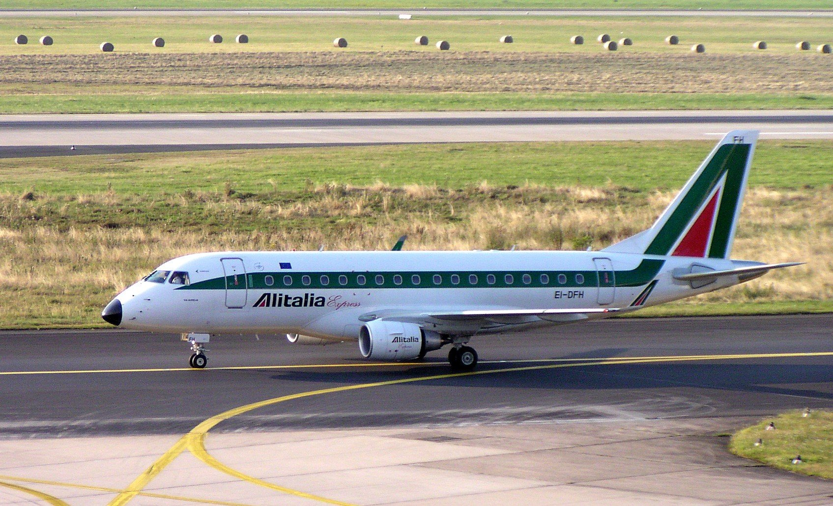 Embraer ERJ-170LR of Alitalia-Express at Düsseldorf Airport